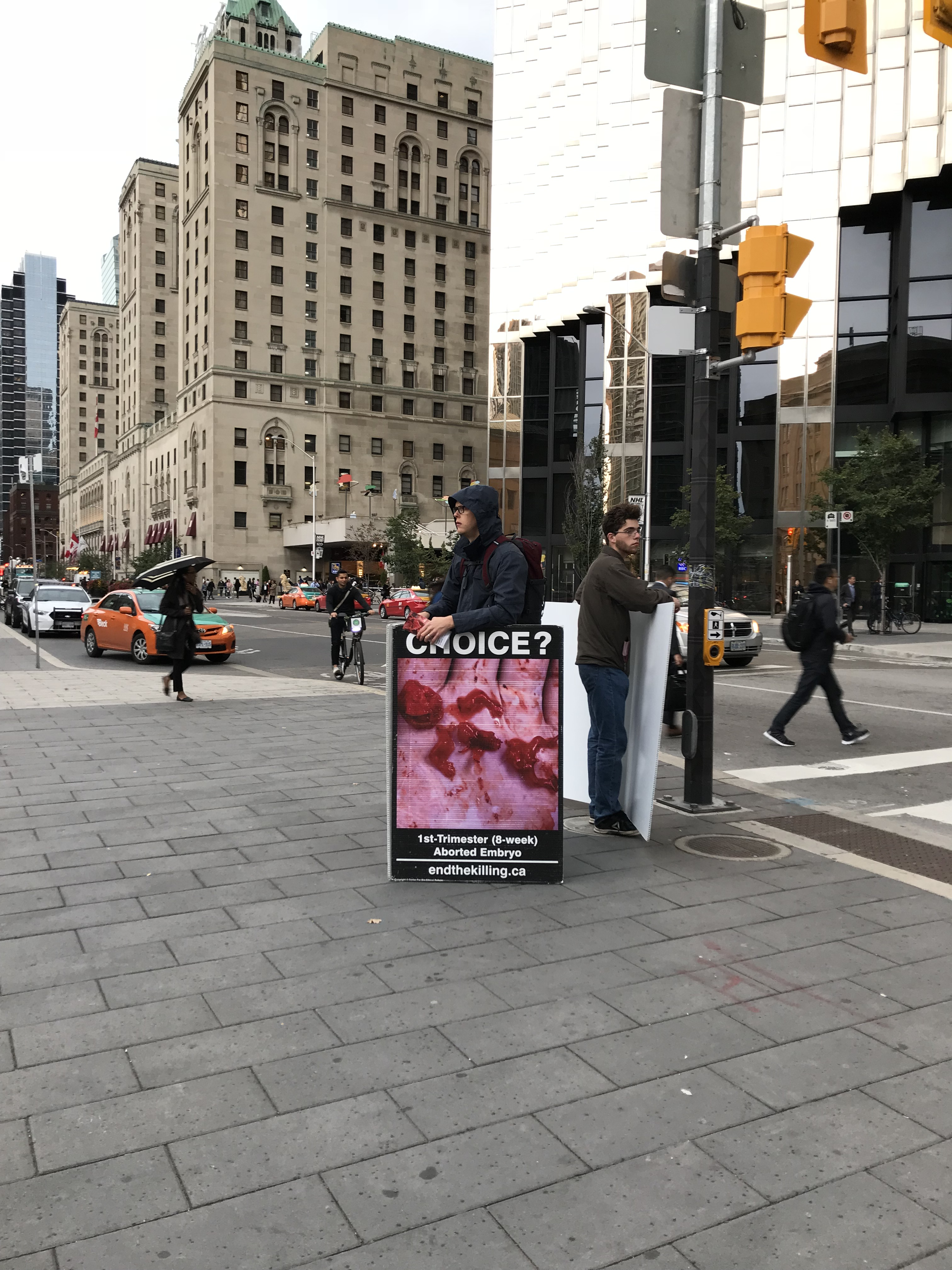 Anti-abortion protesters on Front Street in Toronto, Ontario, Canada, on October 11, 2017. One of the signs reads: "CHOICE? 1st-Trimester (8 week old) Aborted Embryo endthekilling.ca.